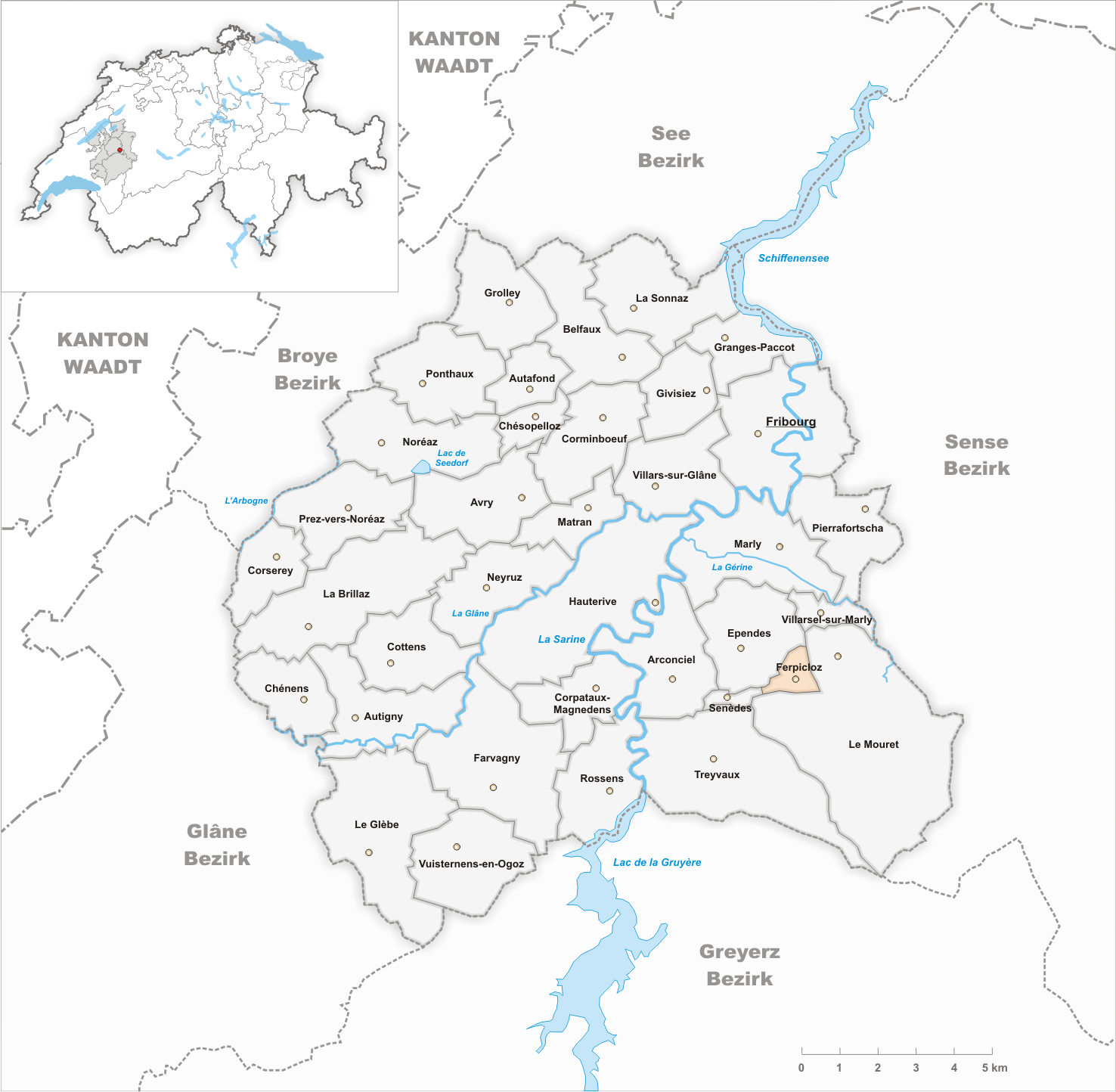 Municipality Ferpicloz